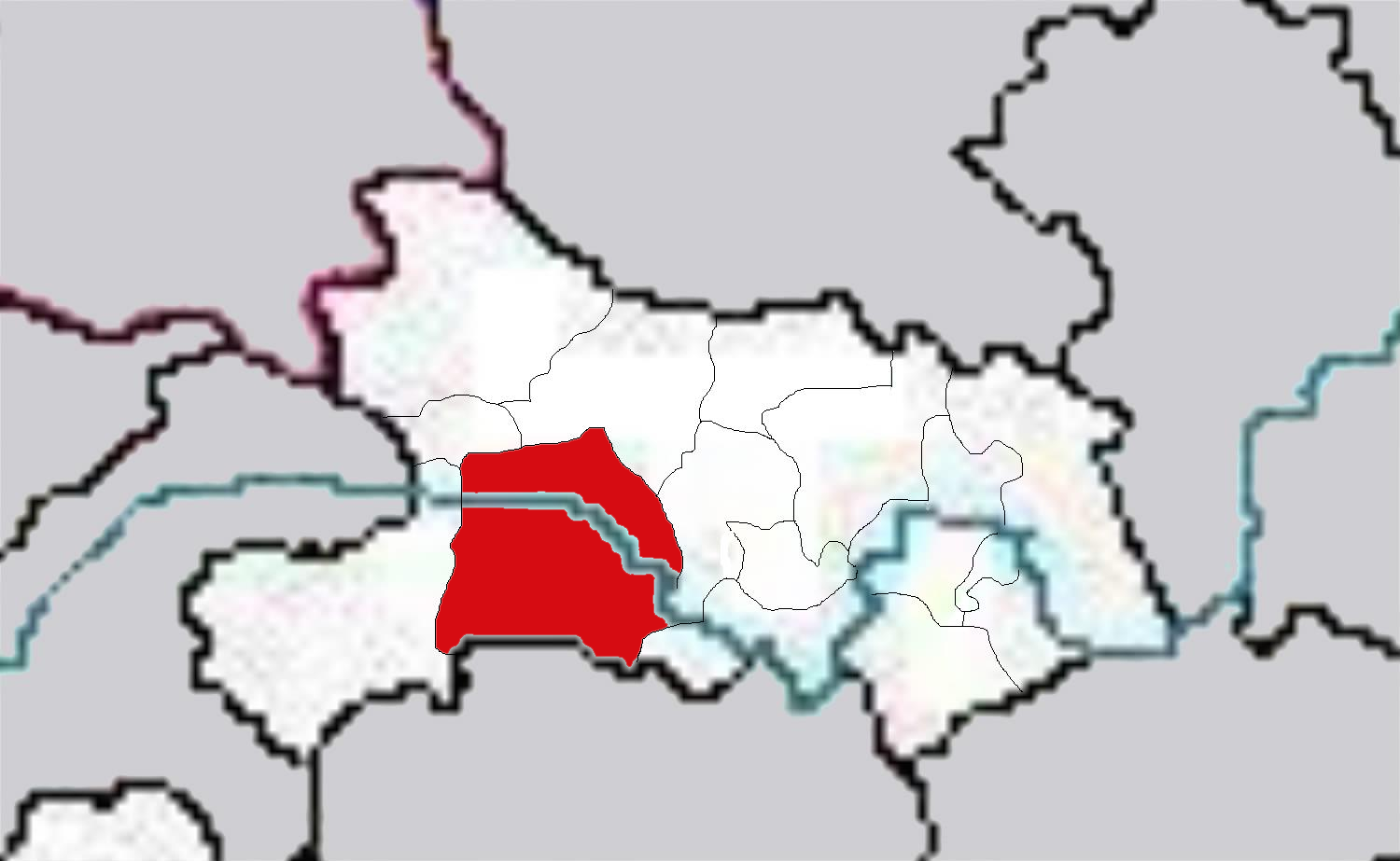 Maps of Hubei Province of China